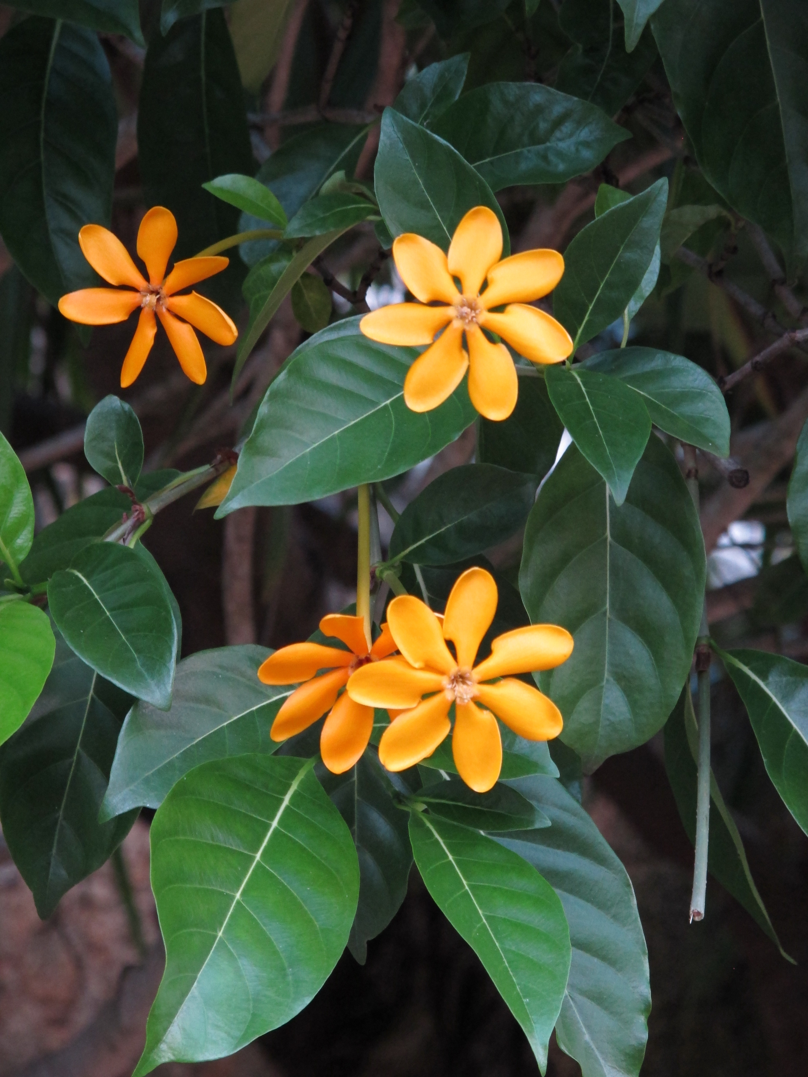 Fairchild Tropical Botanic Garden, Coral Gables, Miami, Florida, USA.